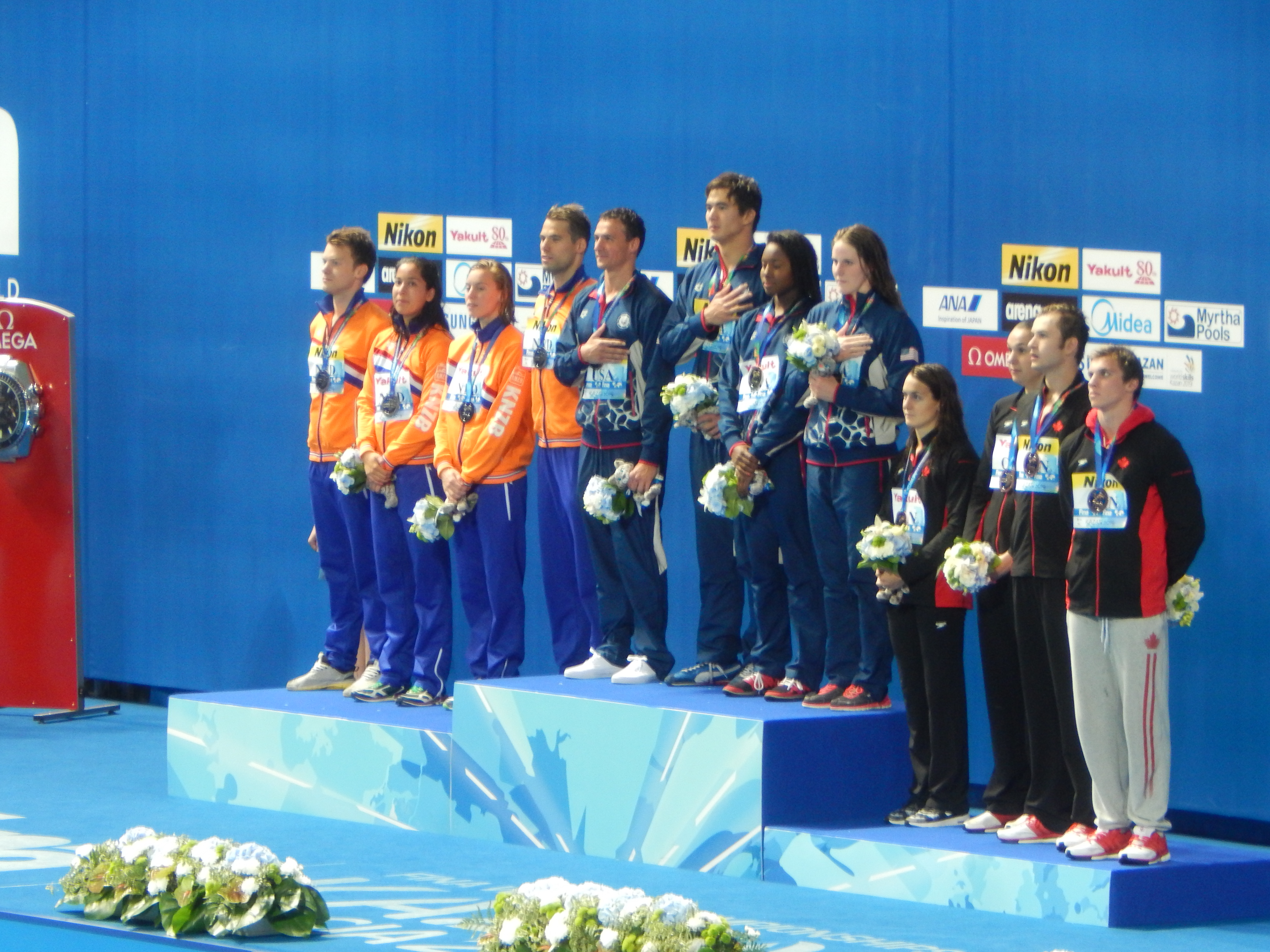 Victory Ceremony of mixed 4×100 metres freestyle relay at the 2015 World Champs in Kazan